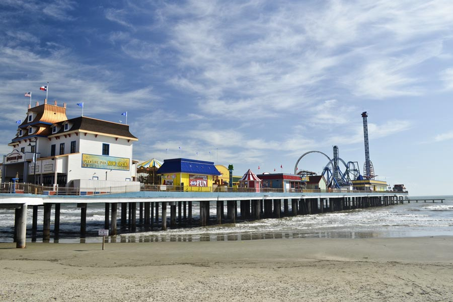 Galveston 12-03-12 - This was the site of The Flagship Hotel. It was damaged so heavily by Hurricane Ike in 2008, that the whole thing was removed. The new Pleasure Pier was completed within the past year. We were reminded of Brighton Pier - in Brighton, England.